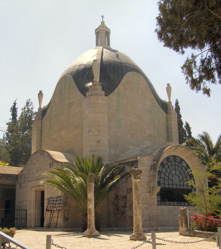 Church Dominus flevit, Jerusalem by Antonio Barluzzi